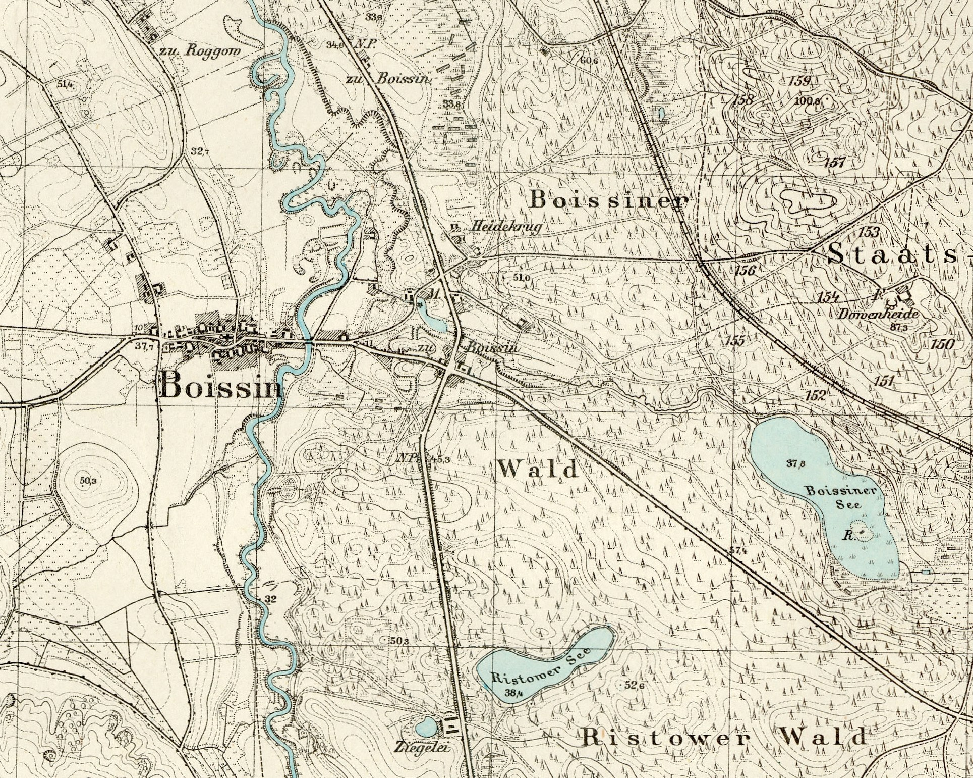 Boissin historical map 1891